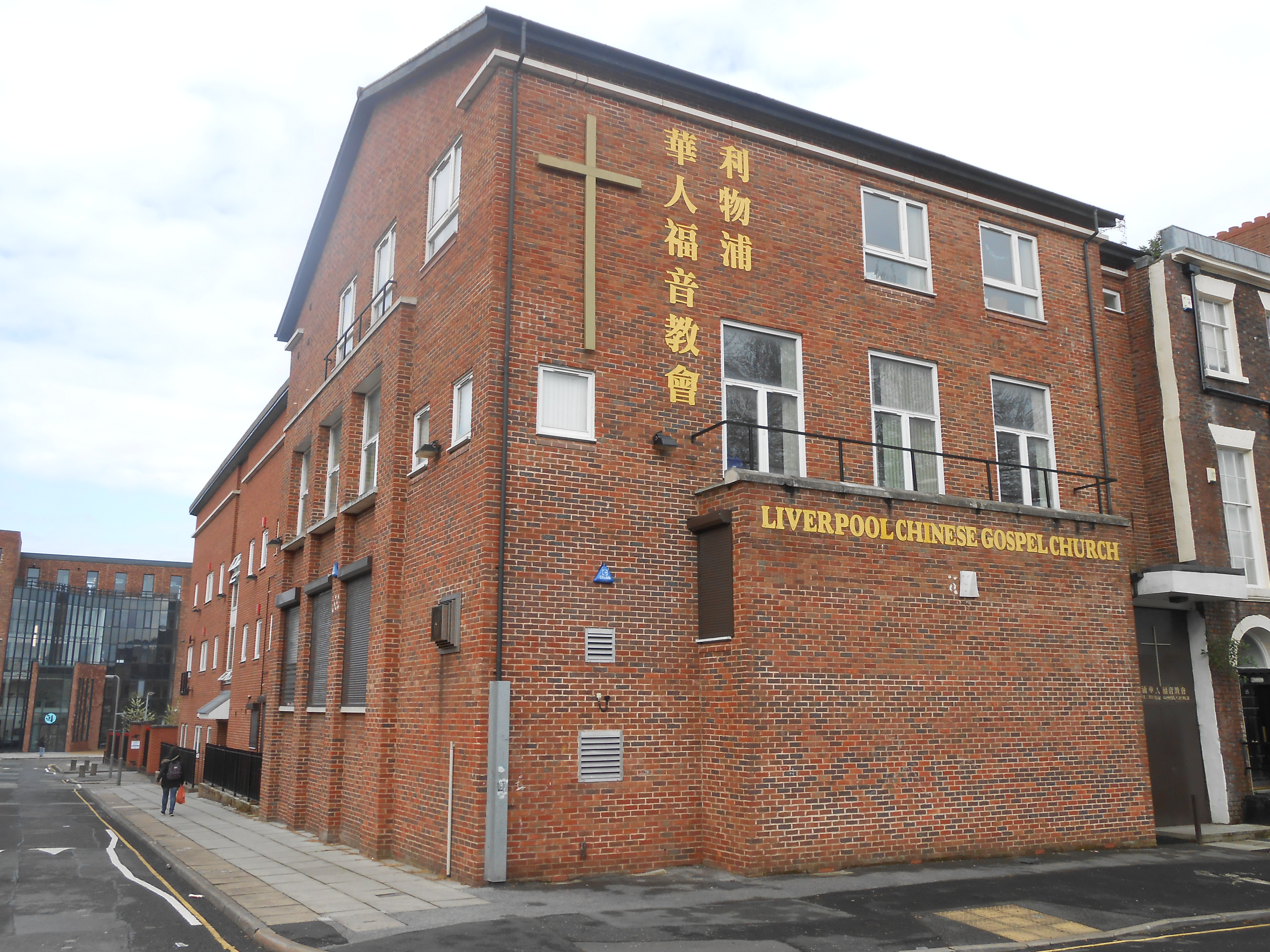 Liverpool Chinese Gospel Church (T: 利物浦華人福音教會, S: 利物浦华人福音教会, P: Lì​wù​pǔ Huá​rén Fú​yīn Jiào​huì), Chinatown, Liverpool, England